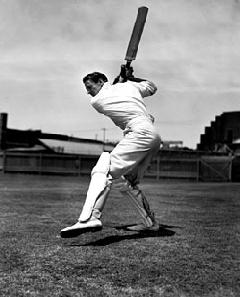 Keith Miller, Australian cricketer